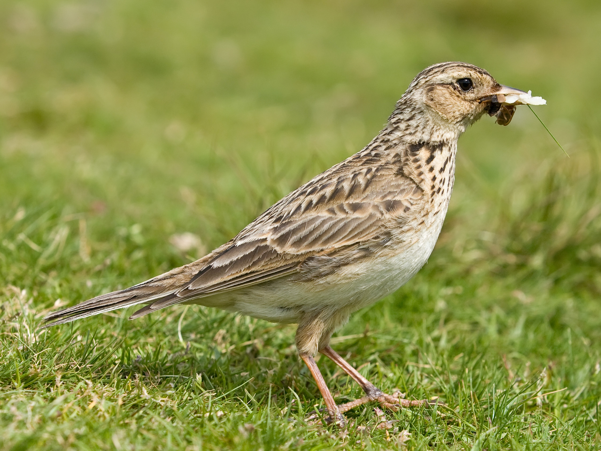 A skylark (Alauda arvensis, sex unknown) with insects in its beak, taken by myself in the Lake District near Derwent Water, in Cumbria, England. Taken with a 5D and 70-200mm f/2.8L at 200mm and f/8.